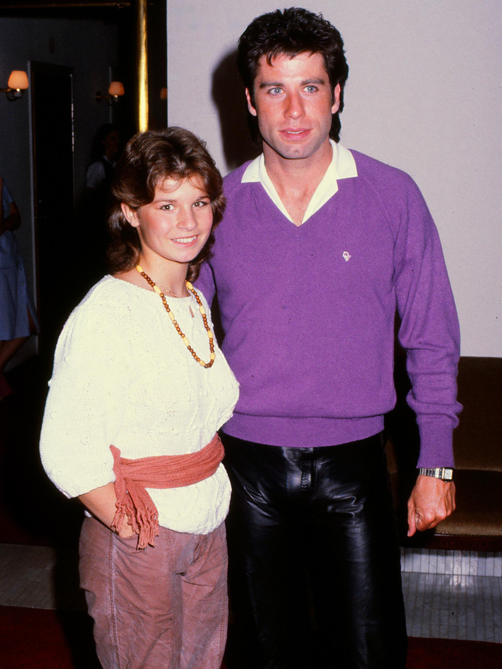 Carola Häggkvist invites herself to a break at the press conference to meet John T.